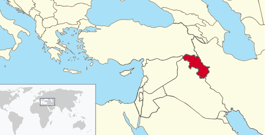 Iraqi Kurdistan on the world map